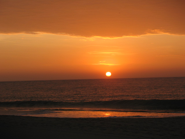 Punta Sal sunset